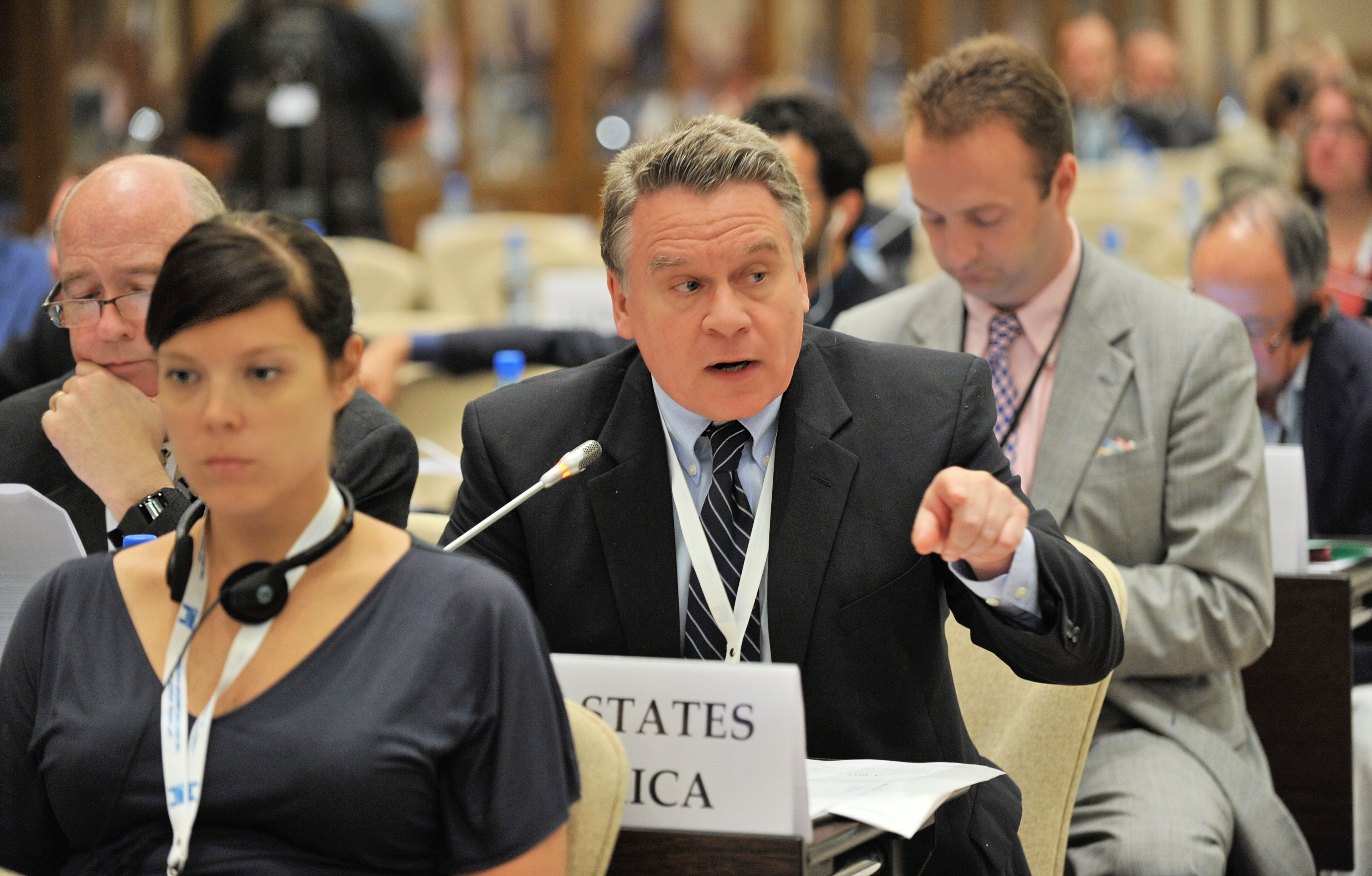 Chris Smith presenting his resolution on combating child sex trafficking, 1 July 2014, Baku